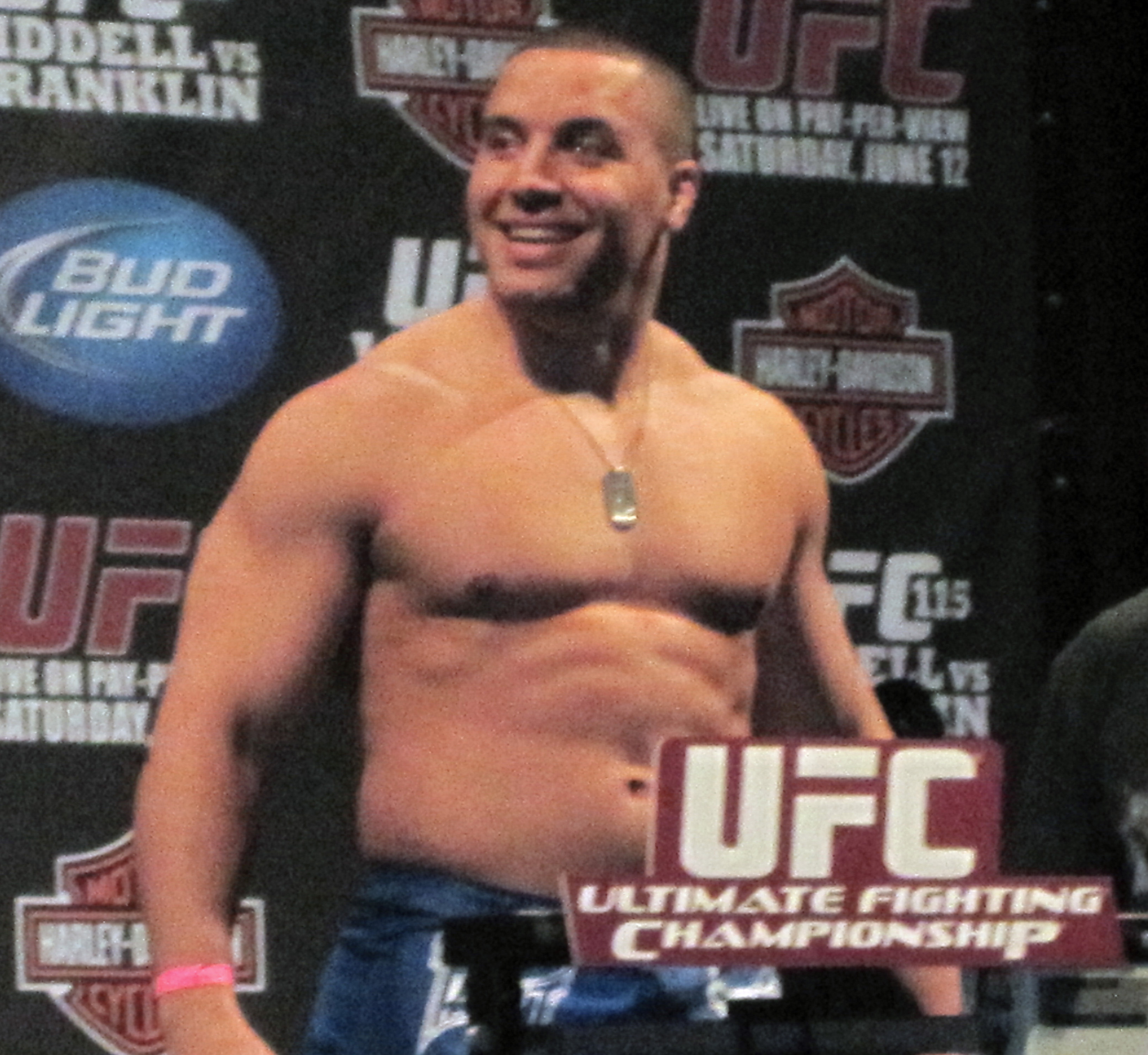 Pat Barry weighs in for UFC 115